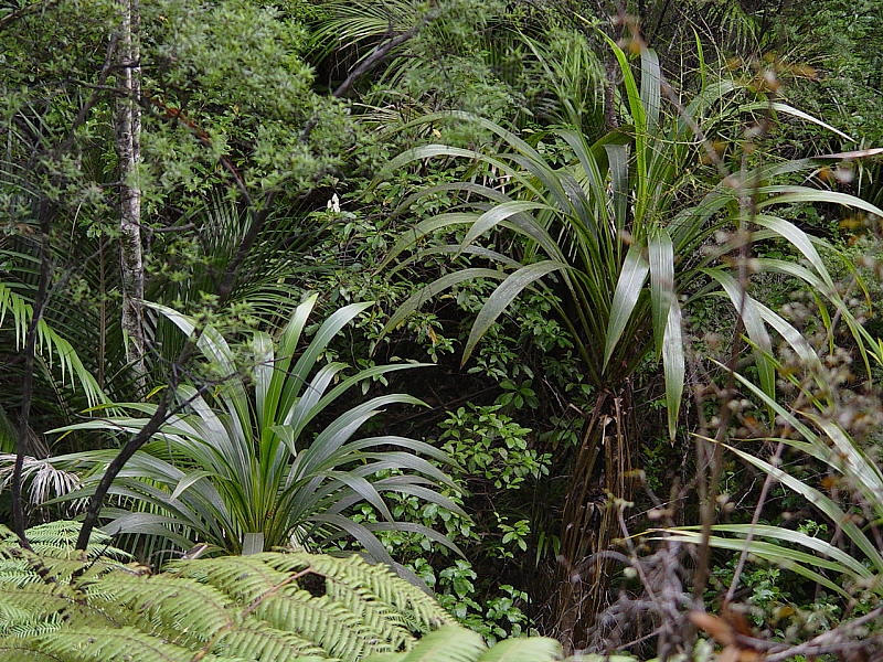 Cordyline banksii. Graceful plants that grow in a remnant kauri pocket on the Aupouri Peninsula, Far North District, North Island, New Zealand.